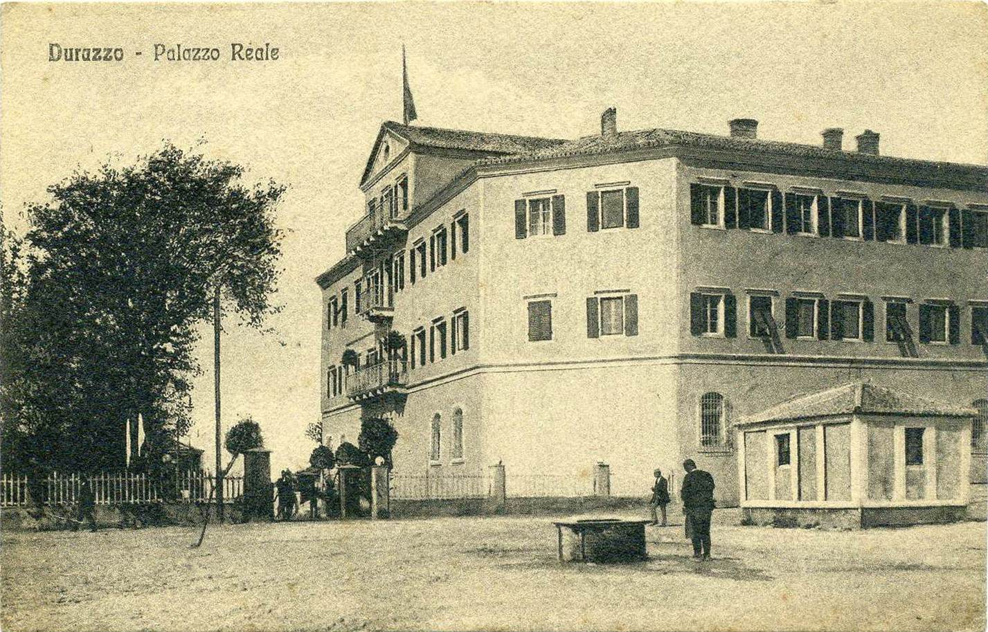 Former Royal Palace of Albania.